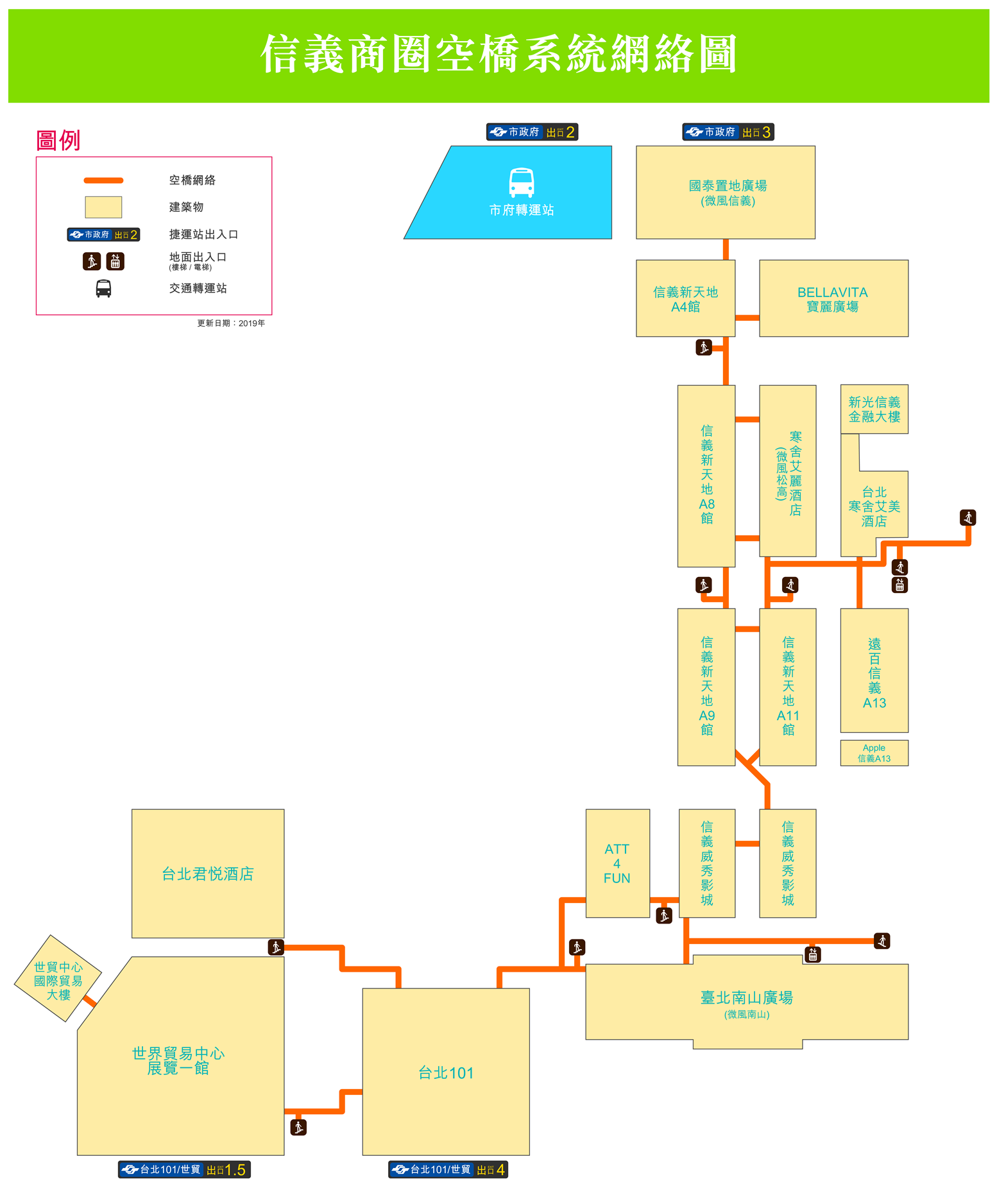 Xinyi District Footbridge System,Taipei